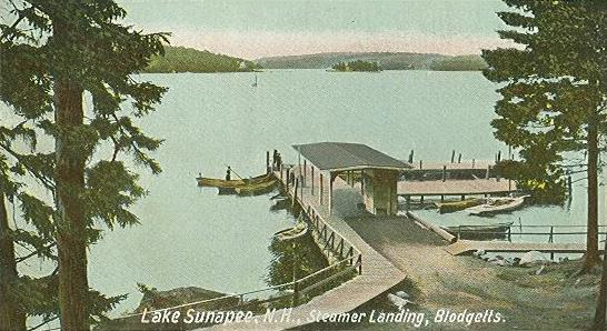 Blodgett's Landing, Lake Sunapee, Newbury, New Hampshire; from a 1905 postcard.